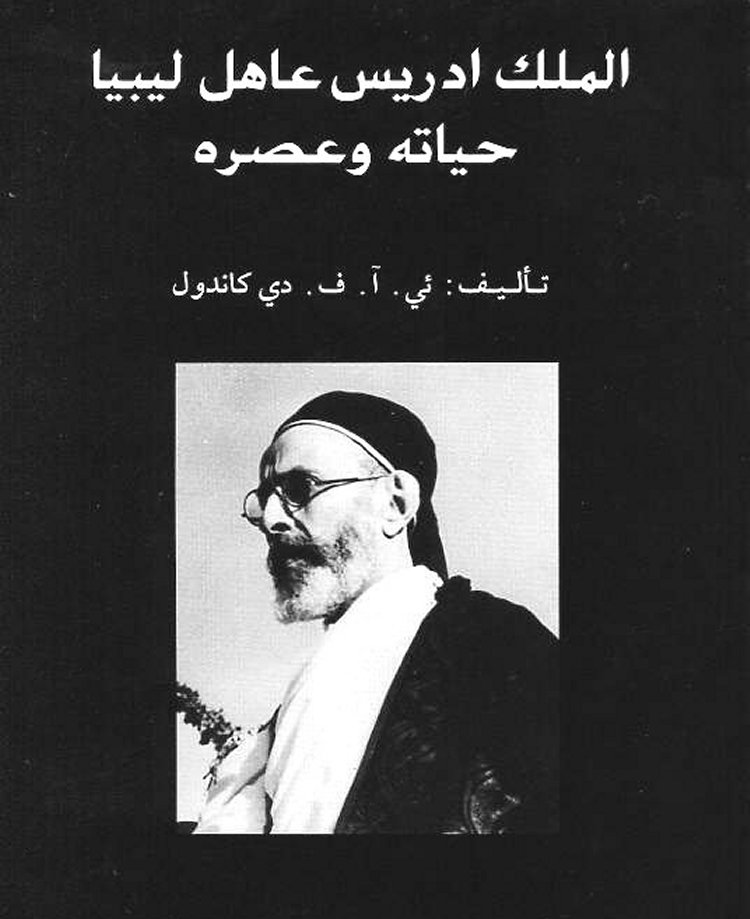 Front Cover of "The Life and Times of King Idris of Libya"